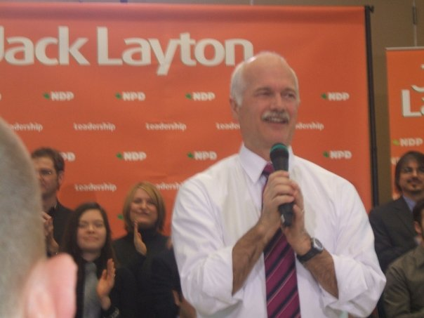 Jack Layton on the 5th anniversary of his leadership of the NDP.